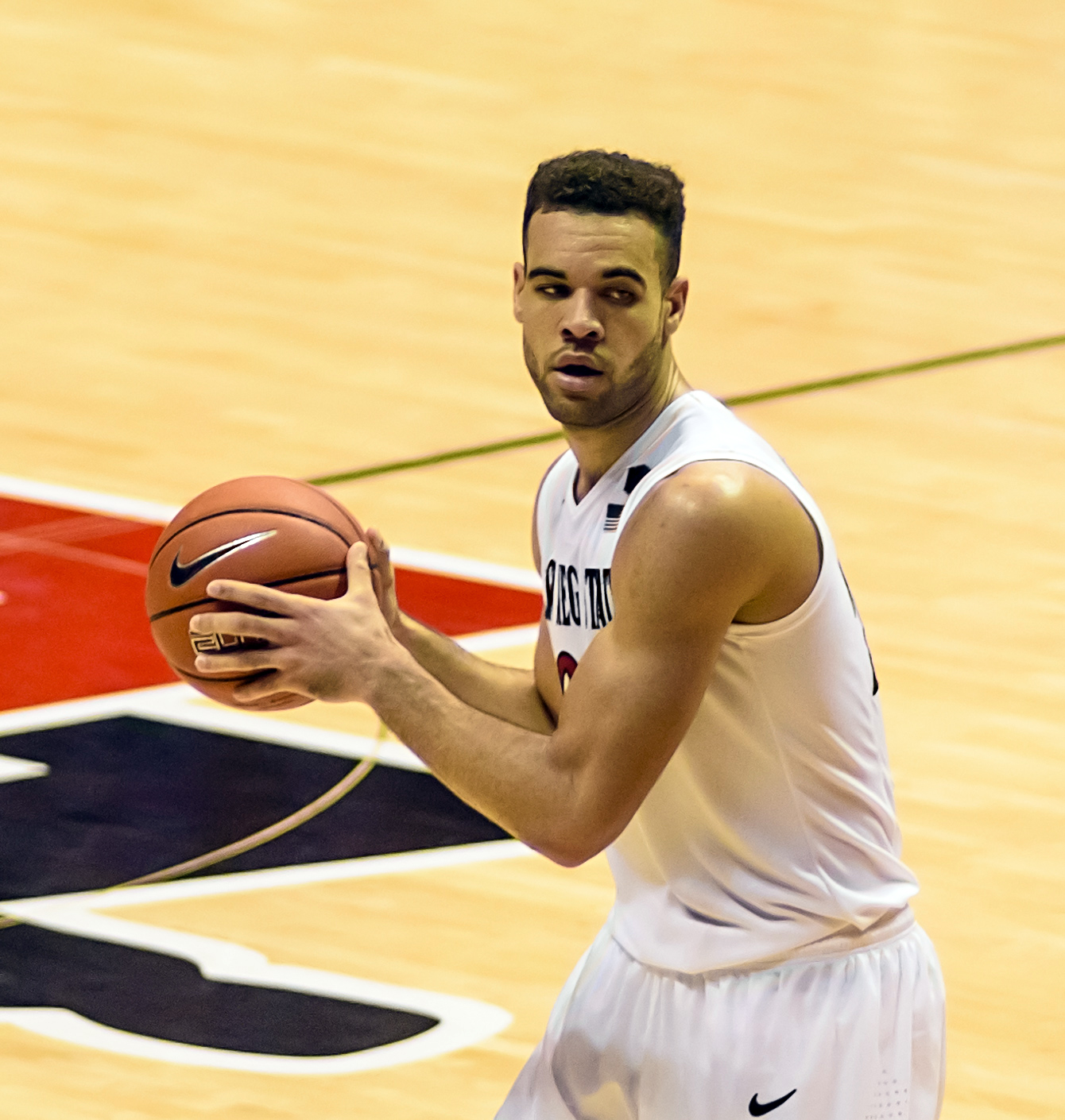 J,J, O'Brien, college basketball player for the San Diego State Aztecs on Dec 10, 2014